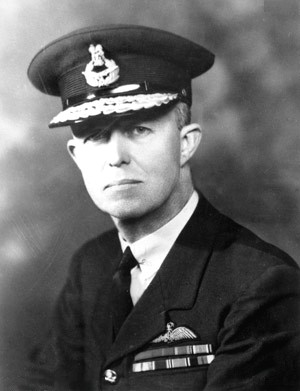 Portrait of Air Marshal Sir Richard Williams, KBE CB DSO, Royal Australian Air Force.